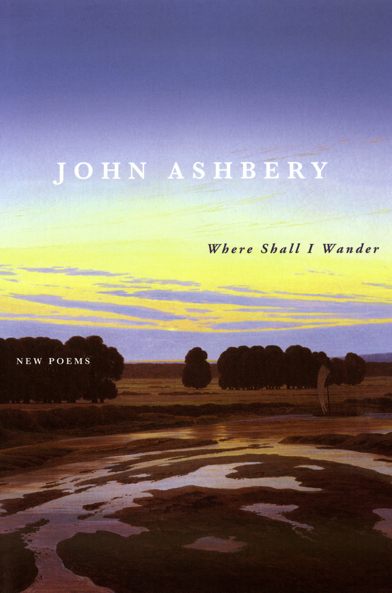 Scanned cover of the dust jacket for the hardcover first edition of John Ashbery's 2005 poetry collection Where Shall I Wander. The cover illustration is the 1832 painting Das Große Gehege bei Dresden (The Great Reserve Near Dresden) by the German artist Caspar David Friedrich.